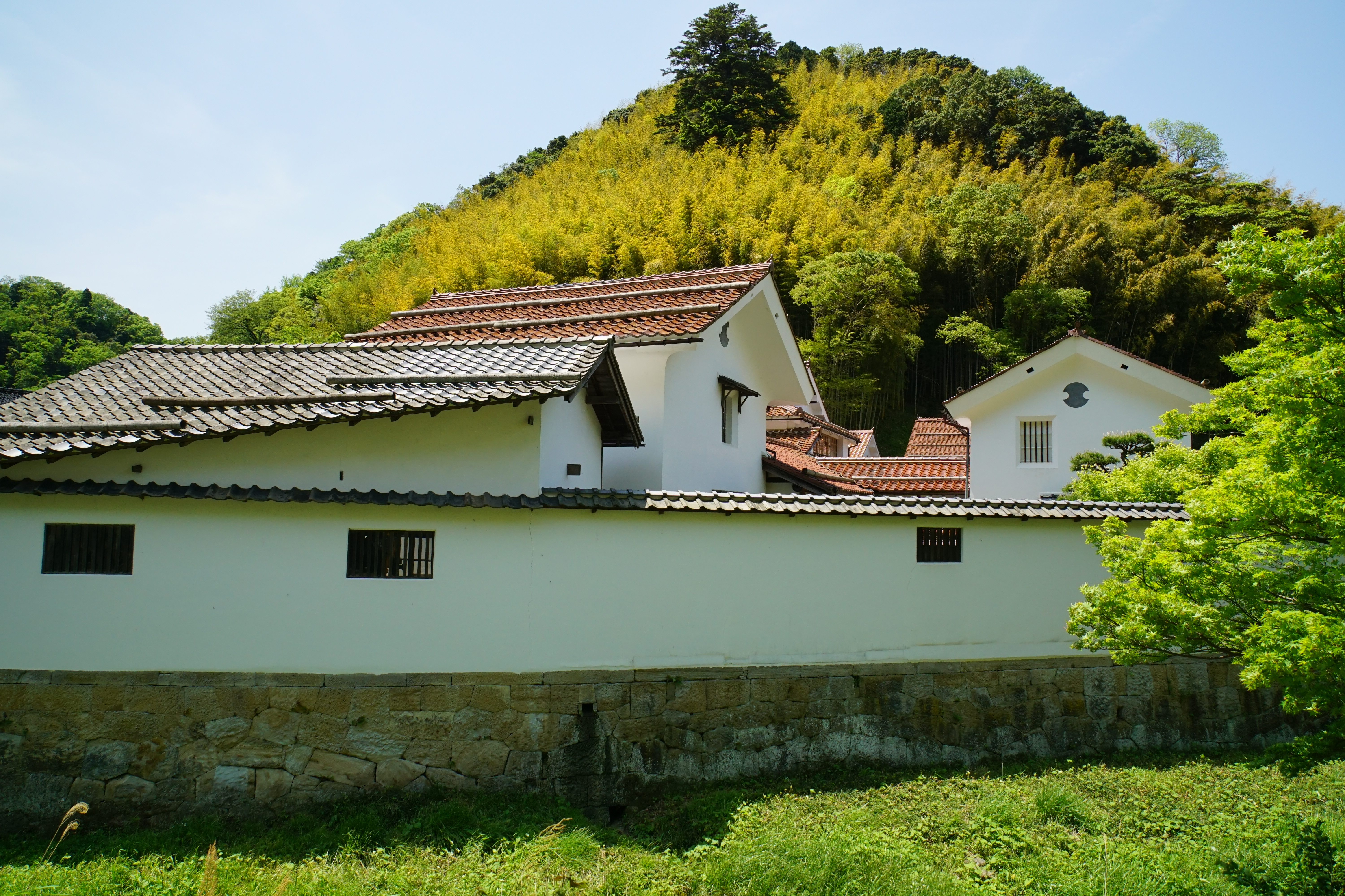 House_of_the_Kumagai_Family in Ōda, Shimane prefecture, Japan. It was registered as part of the UNESCO World Heritage Site "Iwami Ginzan Silver Mine and its Cultural Landscape".